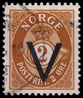 Definitive postage stamp of Norway "Posthorn" 2 ore overprinted with "V-sign" (victory) by Deutsche Reichspost during Third Reich occupation of Norway in august 1941